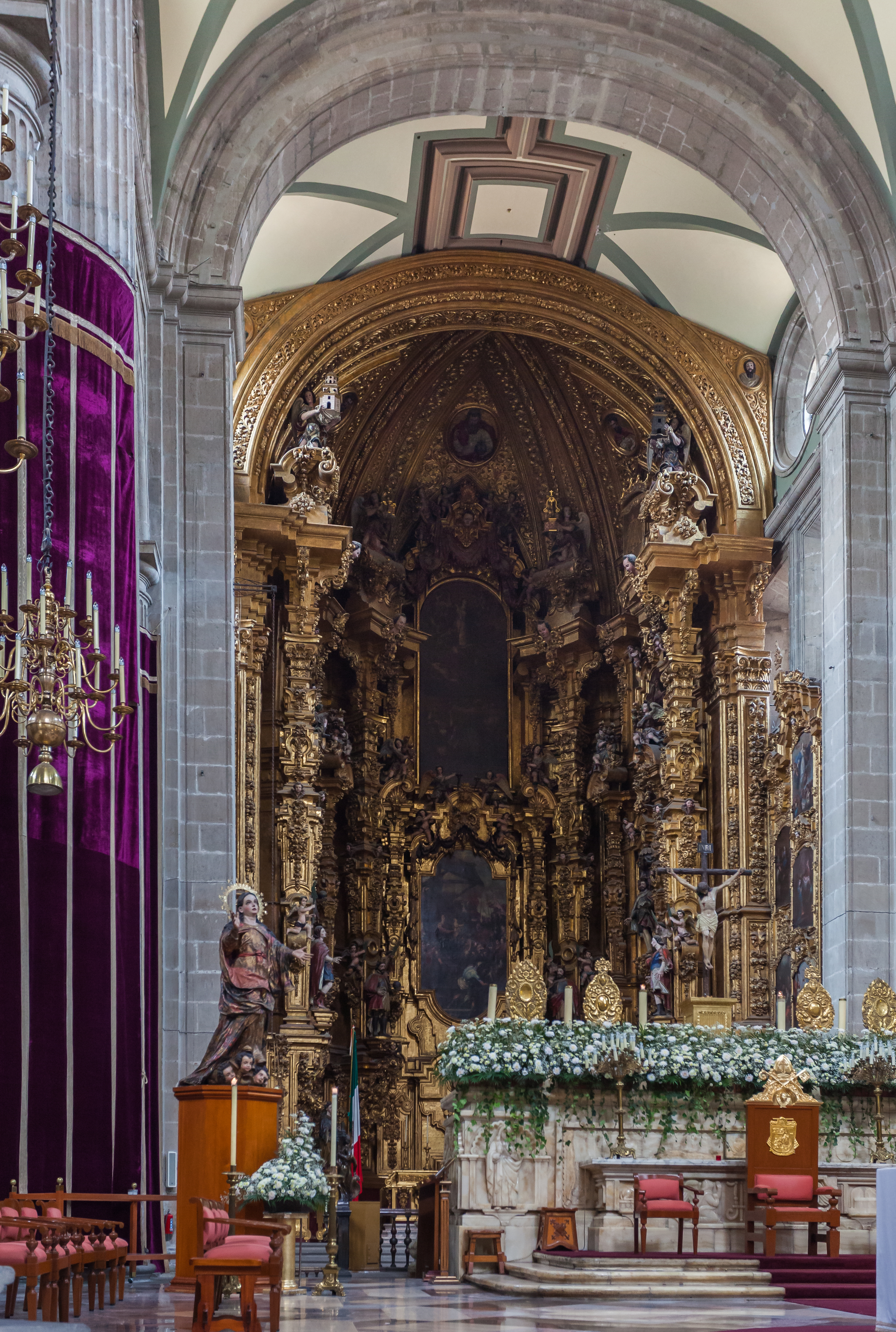 Metropolitan Cathedral, Mexico City, México